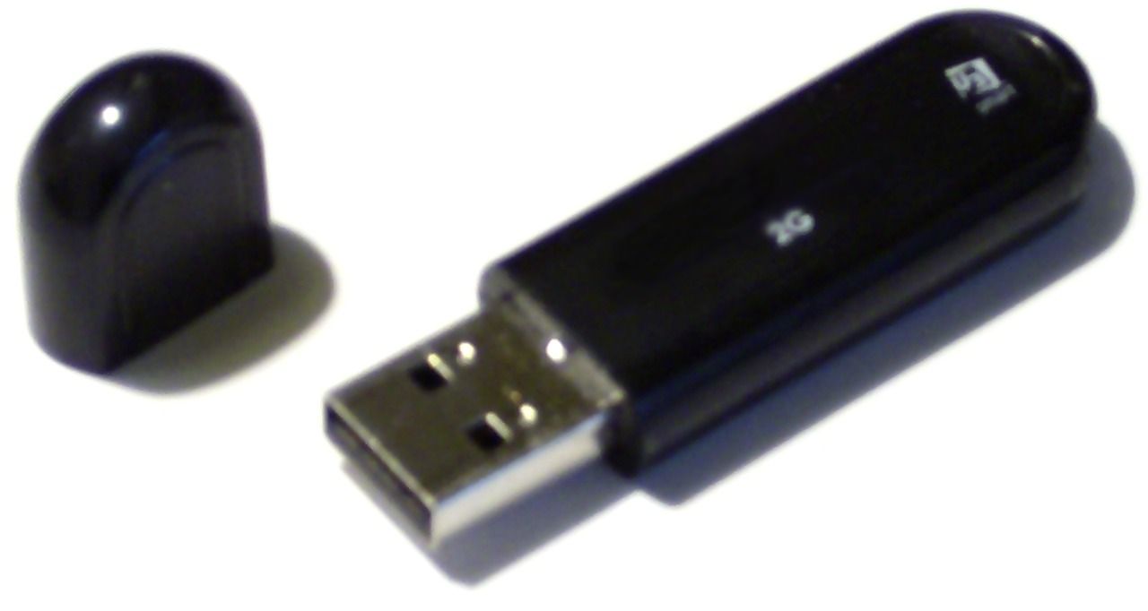 I removed the promotional brand of this USB flash drive using Pixelmator. (I intentionally left in the manufacturer brand, as I didn't mind that so much.) Now it's just a generic USB flash drive.